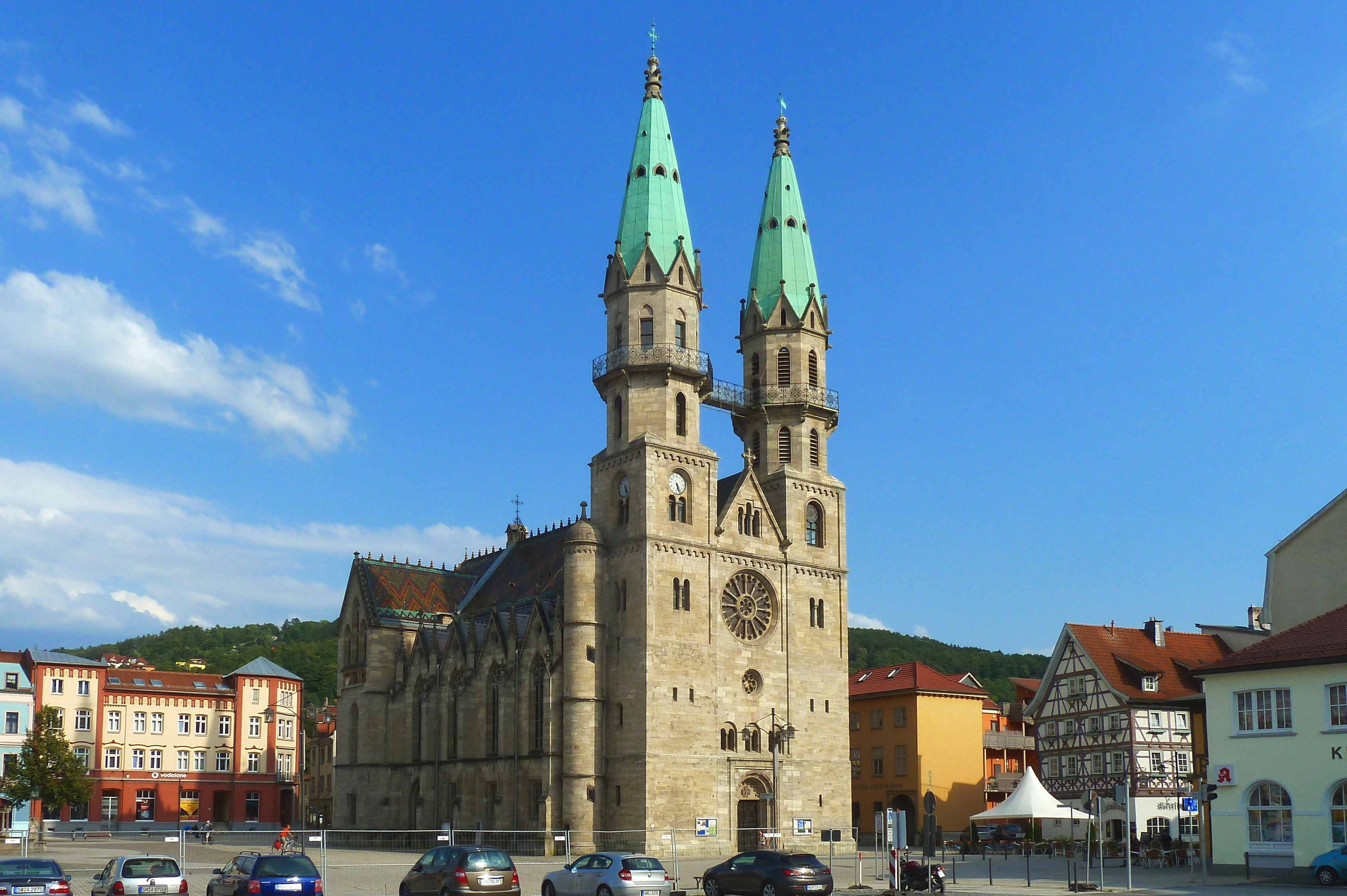 City-Church in Meiningen, Germany, built from 1003.